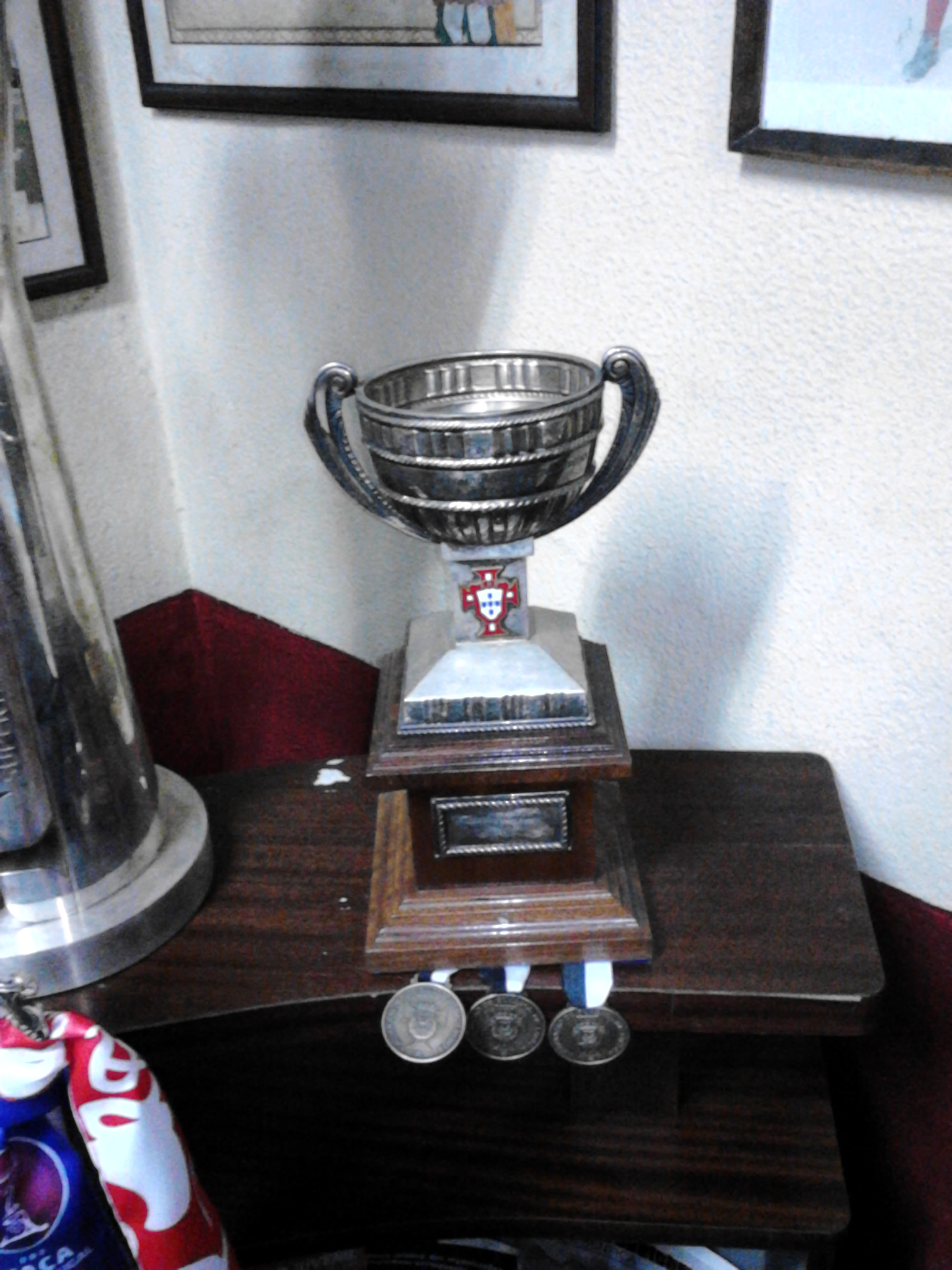 The second tier of women's football. Just a smaller version of the first tier, same size as Futsal teams receive